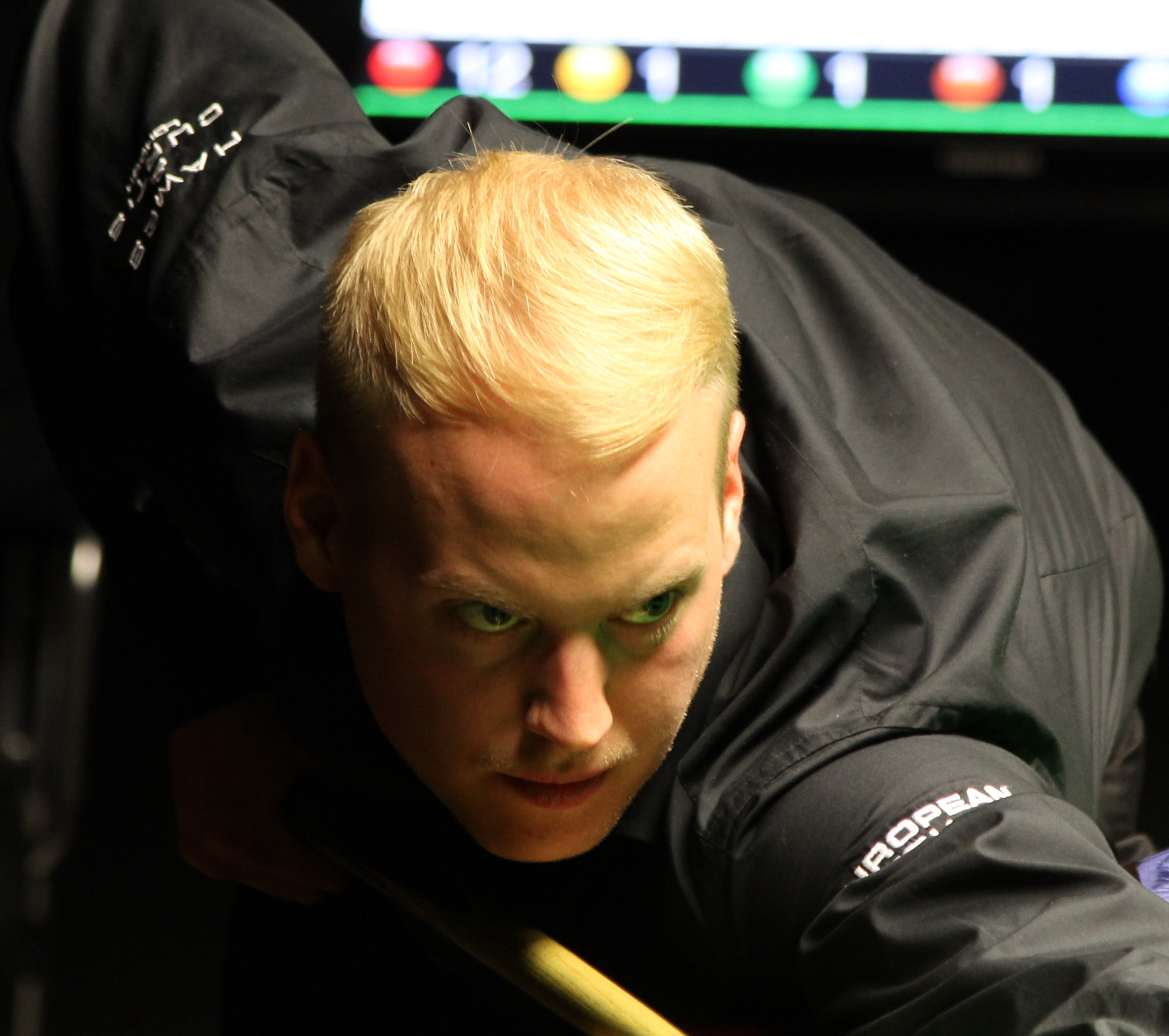 Allan Taylor beim Paul Hunter Classic 2014